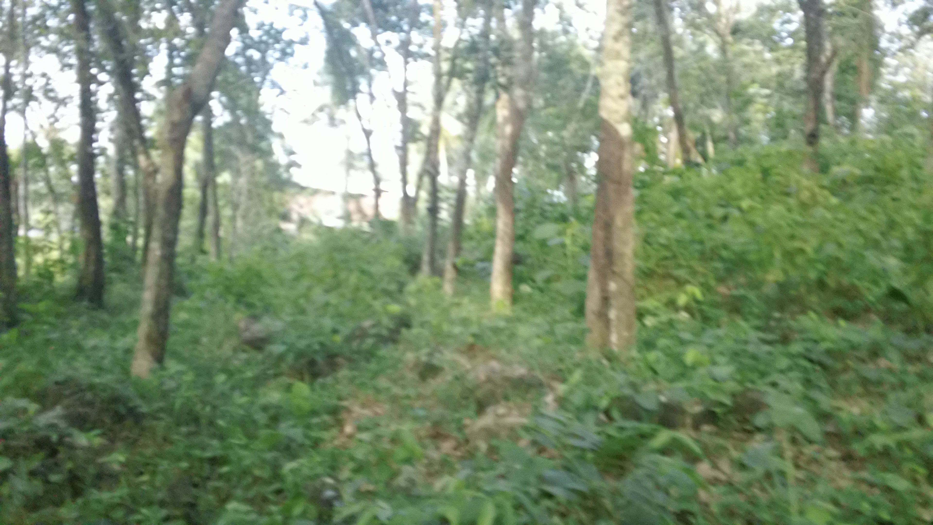 Land of Rubber and Rubber Milk